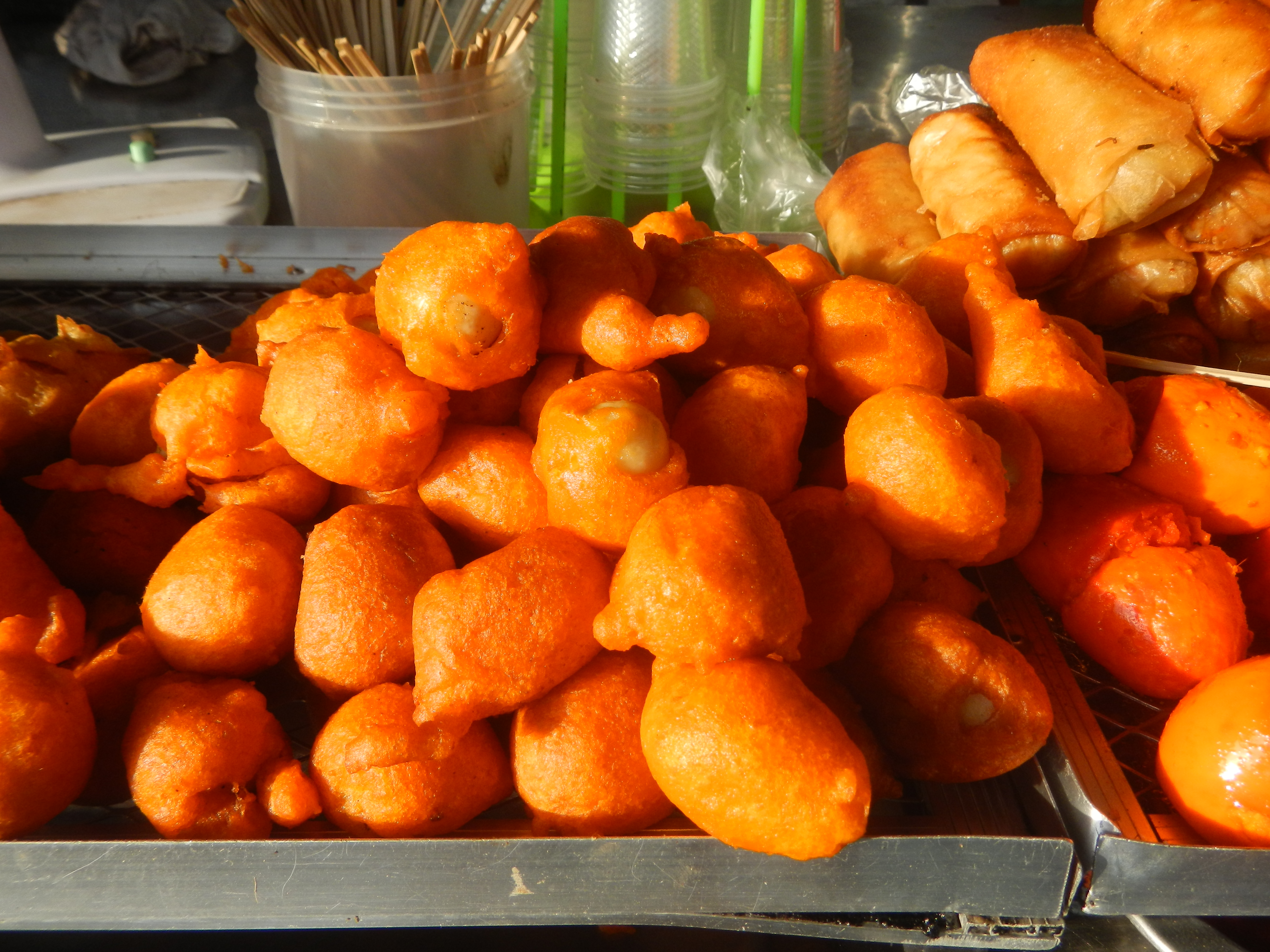 Foods fishes in Paralaya (Poblacion), Candaba, Pampanga Public Market; in Barangays Buas 15°5'47"N 120°49'27"E Buas (Poblacion), Paralaya (Poblacion), beside San Agustin (Poblacion) Candaba, Pampanga (from the San Luis, Pampanga Welcome arch (from Candaba, Pampanga) along the Candaba-San Luis, Pampanga Road of the San Luis-Candaba, Pampanga-Baliuag, Bulacan Road (Barangays Pulong Palazan, Mangga, Dalayap, Tenejero, Talang and Barit section) accessed from and along Baliuag, Bulacan-Candaba, Pampanga Road from Maharlika Highway (Cagayan Valley Road, Baliuag-Pulilan-Guiguinto, Bulacan) Pan-Philippine Highway, also known as the Maharlika "Nobility/freeman" Highway or Asian Highway 26, Cagayan Valley Road) (Note: Judge Florentino Floro, the owner, to repeat, Donor Florentino Floro of all these photos hereby donate gratuitously, freely and unconditionally all these photos to and for Wikimedia Commons, exclusively, for public use of the public domain, and again without any condition whatsoever).